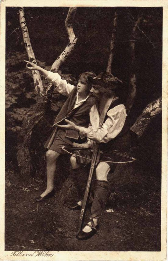 Landesheimatspiele der Provinz Westfalen Witten-Hohenstein 1929: Wilhelm Tell